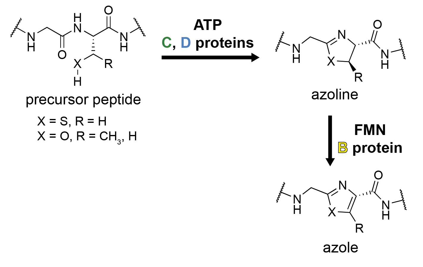 Schematic representation of azol(in)e biosynthesis in ribosomal natural products. Nucleophilic serine, threonine, or cysteine side chains react with an ATP-activated carbonyl backbone to yield an azoline, catalyzed by the C/D protein complex. Subsequent FMN-dependent dehydrogenation by the B protein yields an azole.